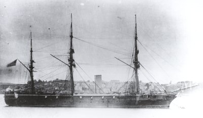 HMS Amethyst